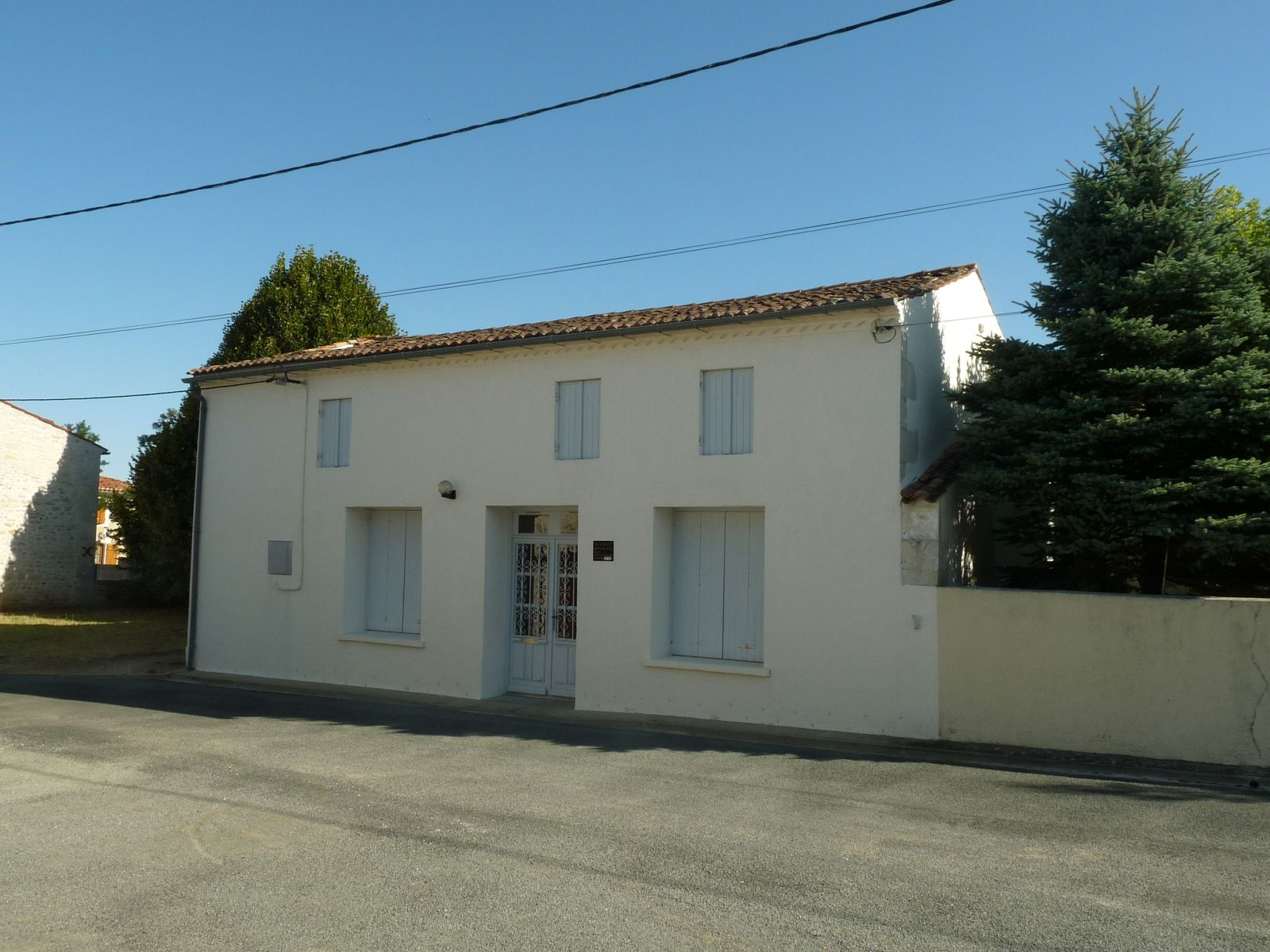 town hall of Thaims, Charente-Maritime, SW France